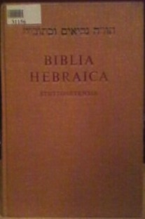 Biblia Hebraica Stuttgartensia